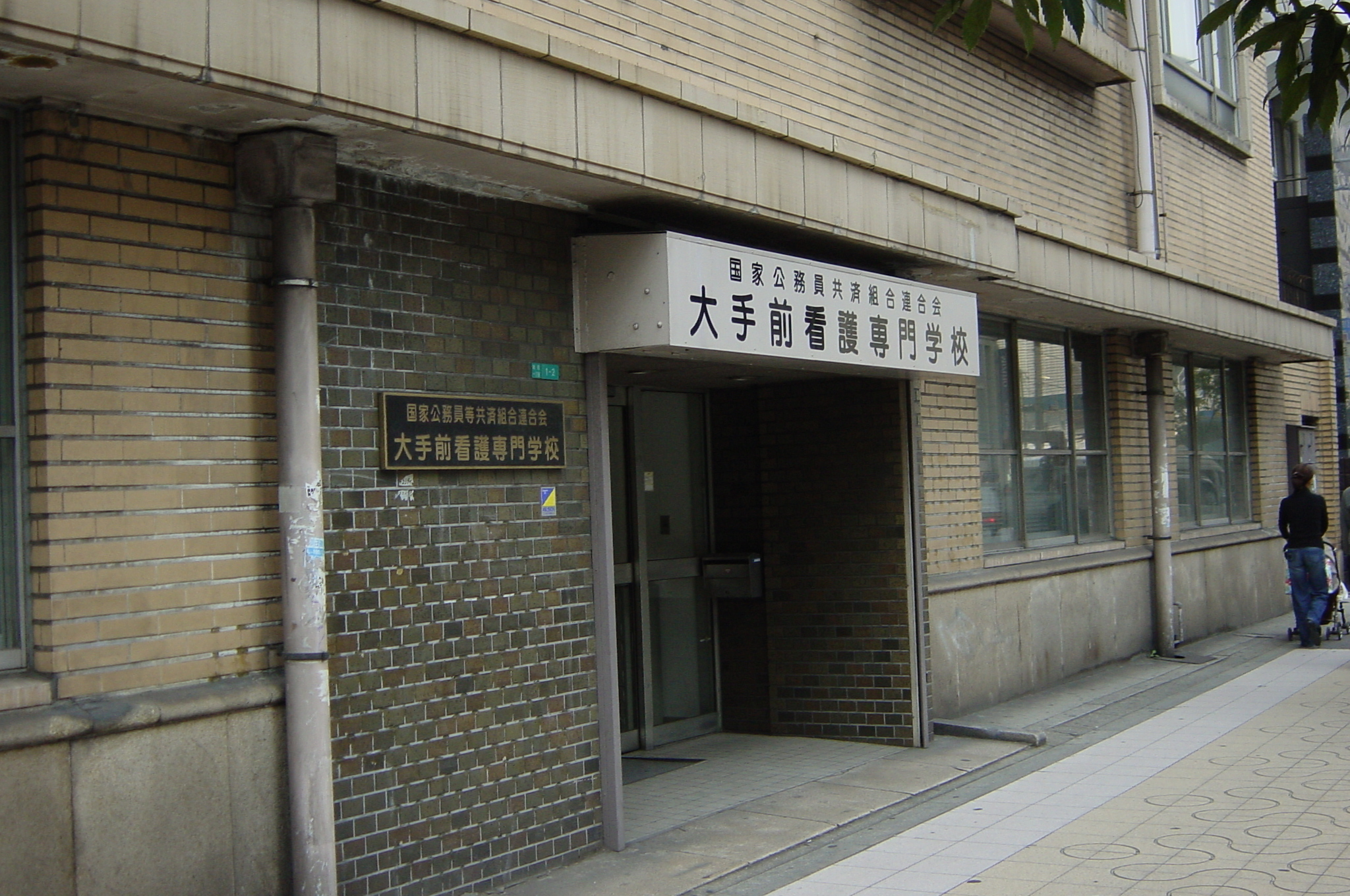 abeno ootemae kango senmon gakkou